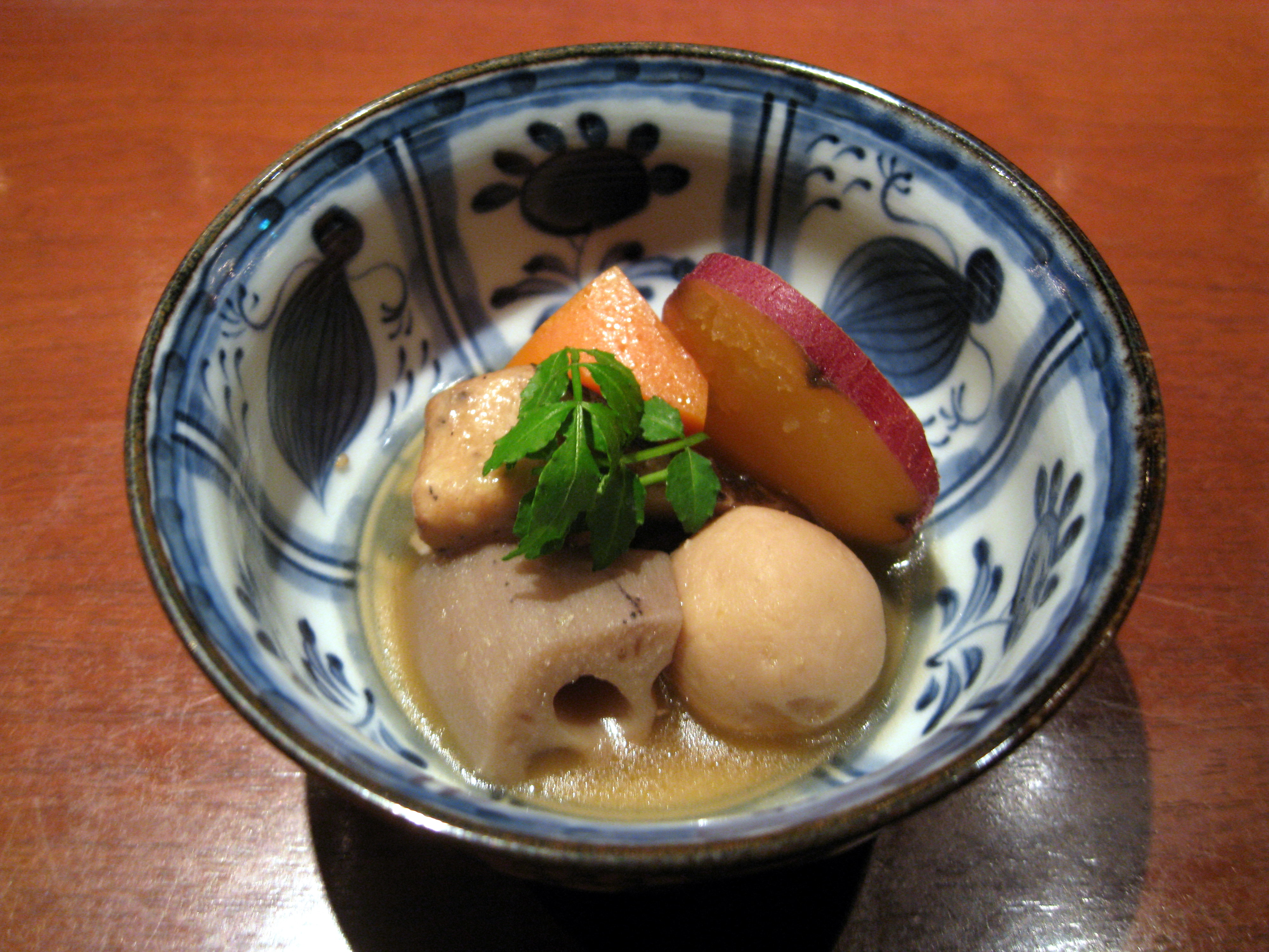 Simmered season vegetable - Kyoto